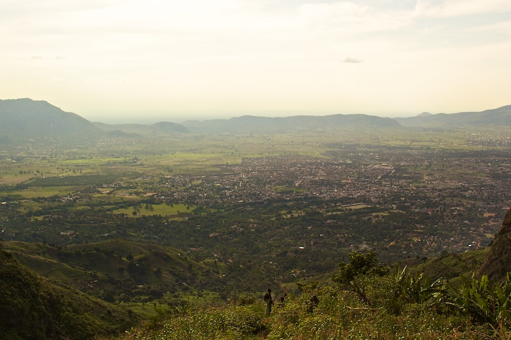 Morogoro town seen from the trail leading up to Lupanga peak.